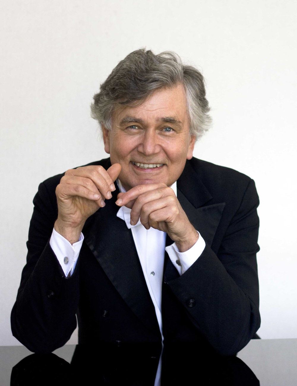 Portrait of Eugen Indjic taken in Paris, 2014